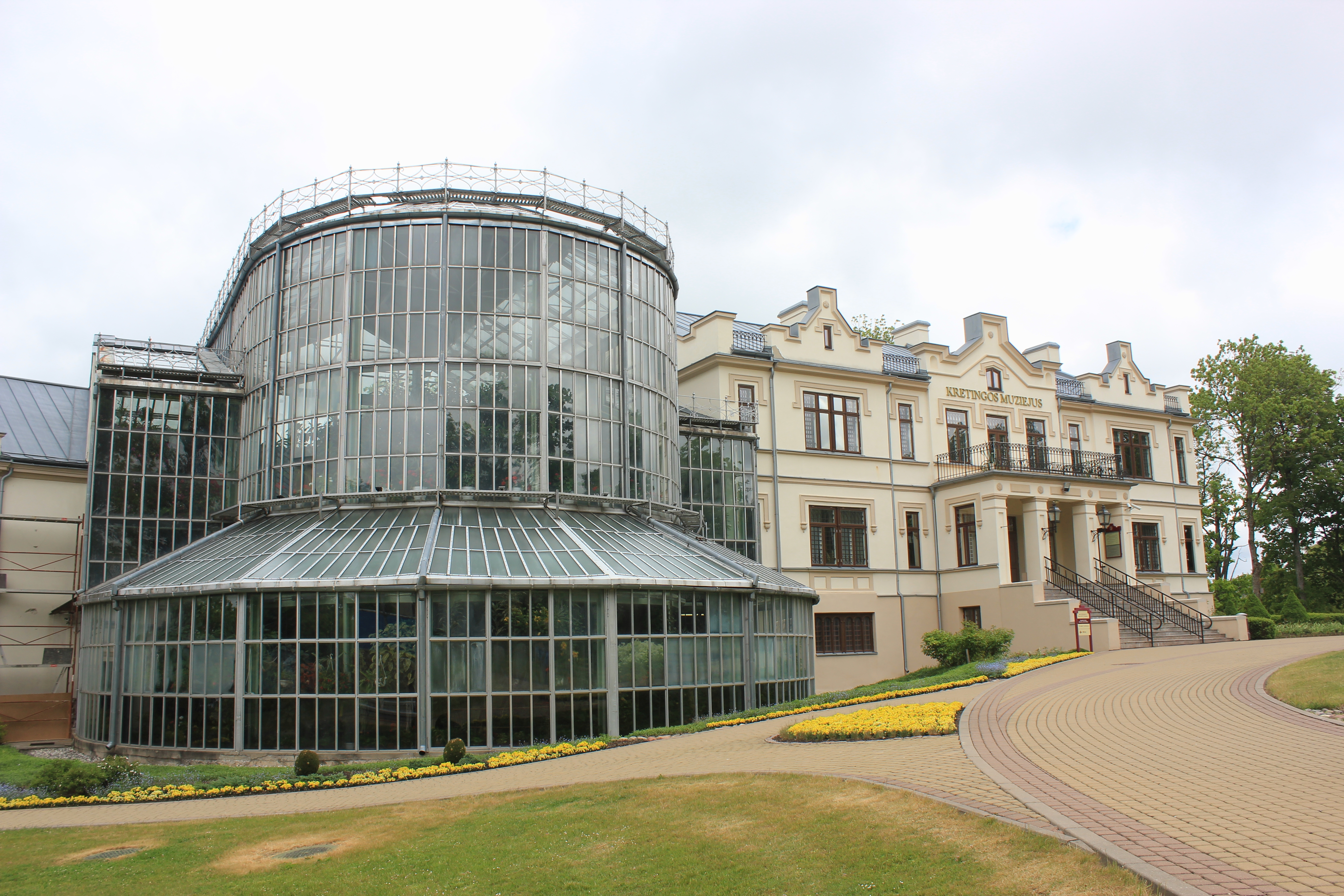 Kretinga - Tyszkiewicz manor